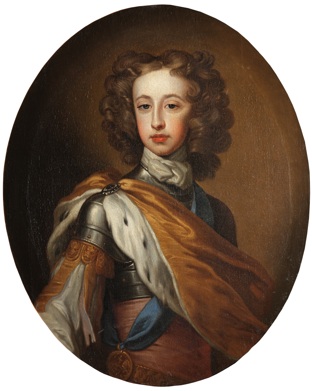 Prince William, Duke of Gloucester (1689-1700), son of Princess Anne, later Queen of Great Britain, shortly before his death.